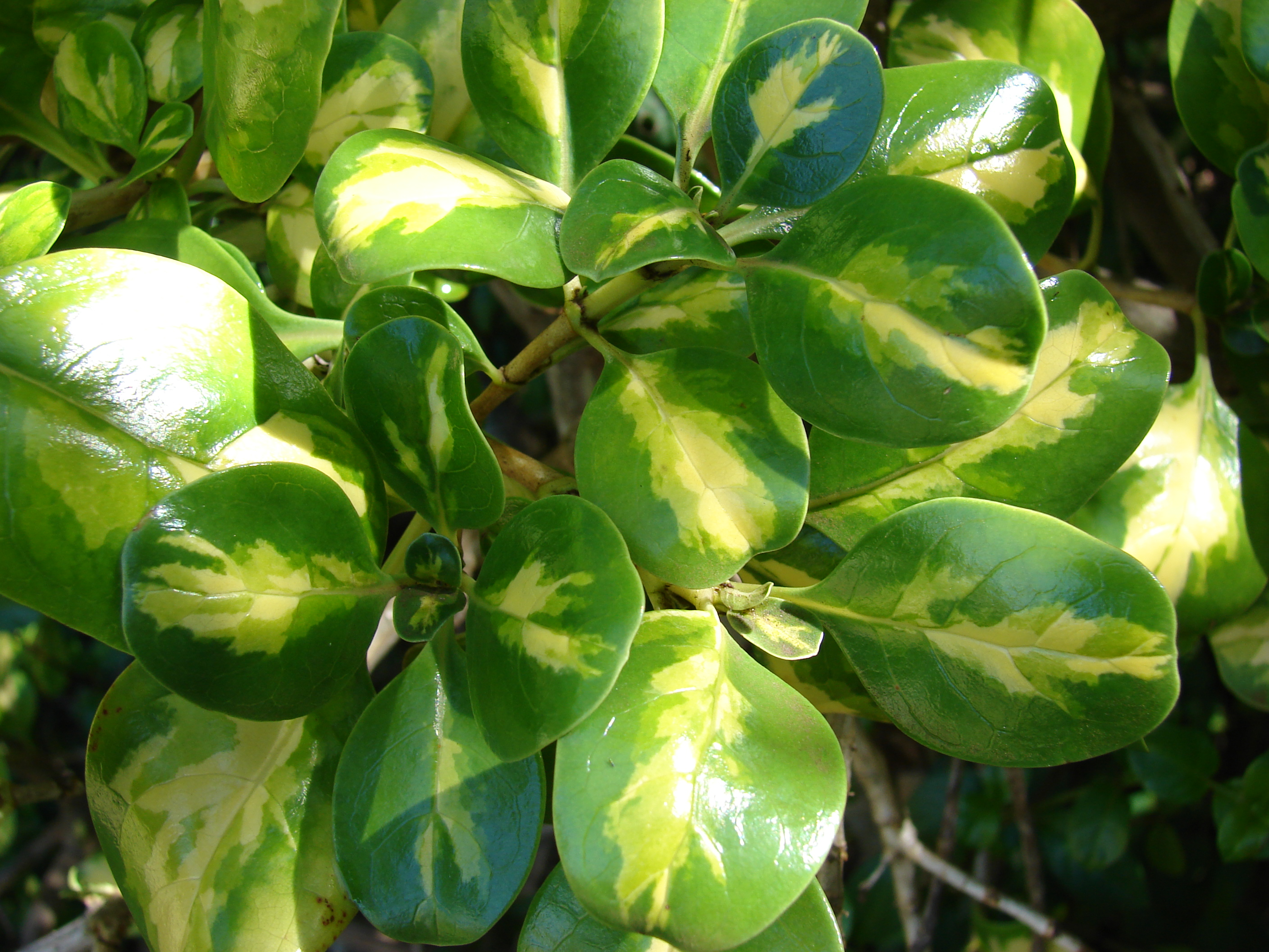 Coprosma repens (leaves). Location: Maui, Enchanting Floral Gardens of Kula